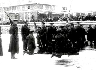 Sir Sam Hughes inspects 207th battalion and Presents Colours 18 November 1916, his last official act as Minister of Militia